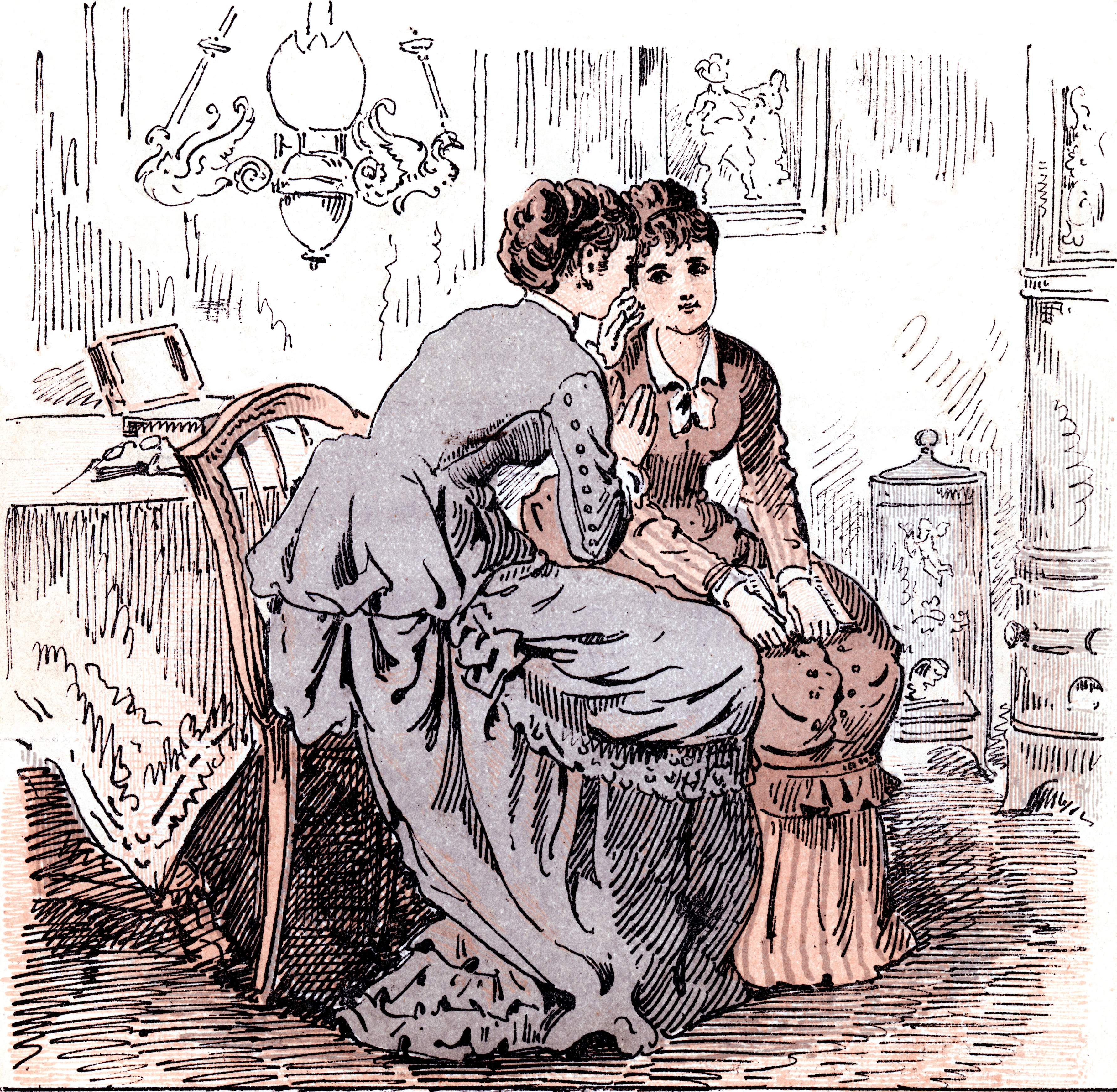 Cartoon about women discussing slightly "racy" novel: Forbidden fruit tastes best. - It's surely never "Marie Group"? - No - For the final you must not read. I was very innocent to look at it, but it is dangerous for us poor women - You may think you (whispers) - - Oh, You Sweet Lord - and I truly believe that I today will ask at the rental library - just to see if they really should have that sort of books.